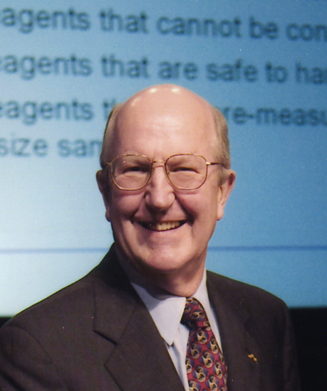 Photograph of Arnold Thackray, founder and president of the Chemical Heritage Foundation, at the 2003 Heritage Day Awards, at the Chemical Heritage Foundation, Philadelphia, PA, USA.